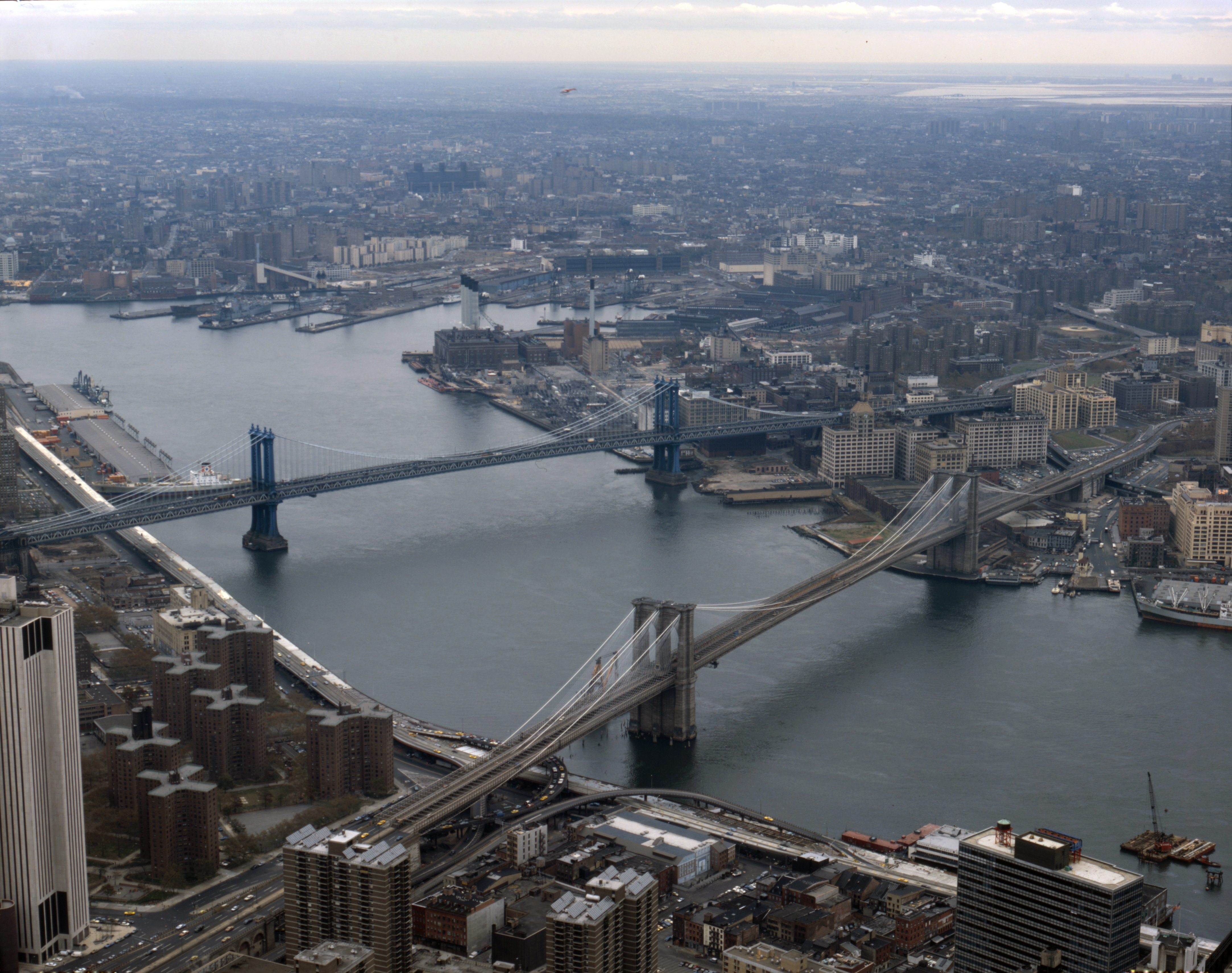 Two bridges span New York City's East River, connecting Manhattan (foreground) and Brooklyn (background). The Brooklyn Bridge is in the foreground, and the Manhattan Bridge in the distance. Library Of Congress information: -------------------------------- TITLE: Brooklyn Bridge, Spanning East River between Brooklyn & Manhattan, New York City, New York County, NY CALL NUMBER: HAER, NY,31-NEYO,90-74 DATE: 1982-11 NOTE: Survey number HAER NY-18 Building/structure dates: 1869 SUBJECTS: NEW YORK--New York County--New York City suspension bridges COLLECTION: Historic American Engineering Record (Library of Congress) REPOSITORY: Library of Congress, Prints and Photograph Division, Washington, D.C. 20540 USA CARD #: NY1234